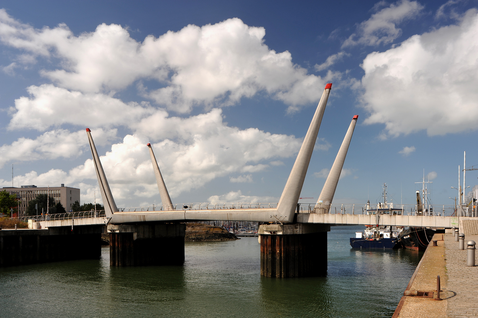 Pont de la bataille du Texel in Dunkirk; Nord, France.